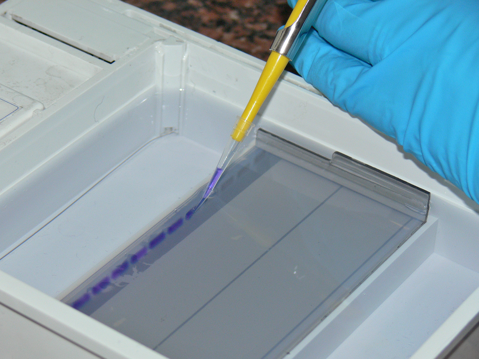 Electrophoresis - preparation